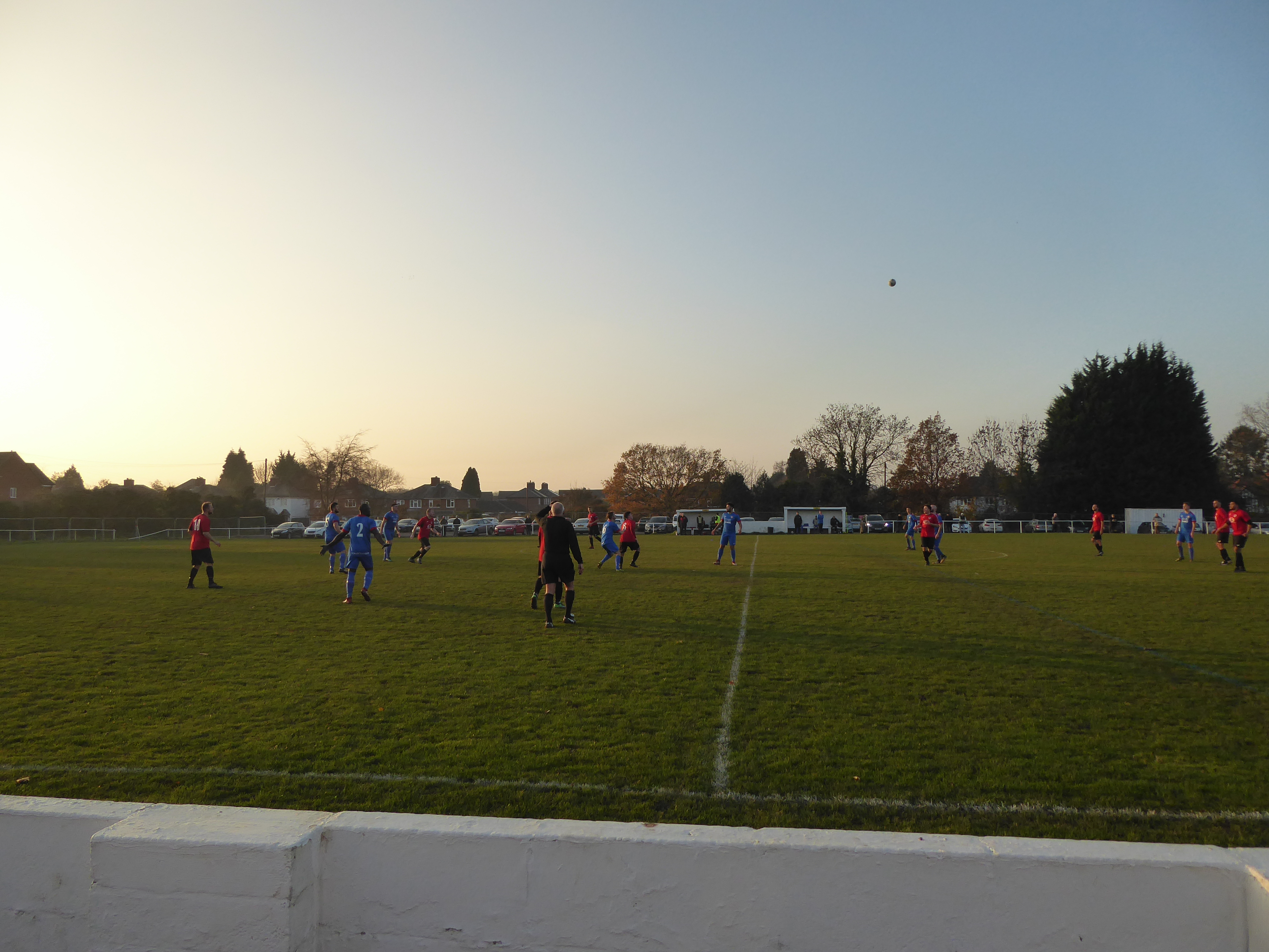 Knowle FC take on Fairfield Villa at their Hampton Road Ground, November 2018